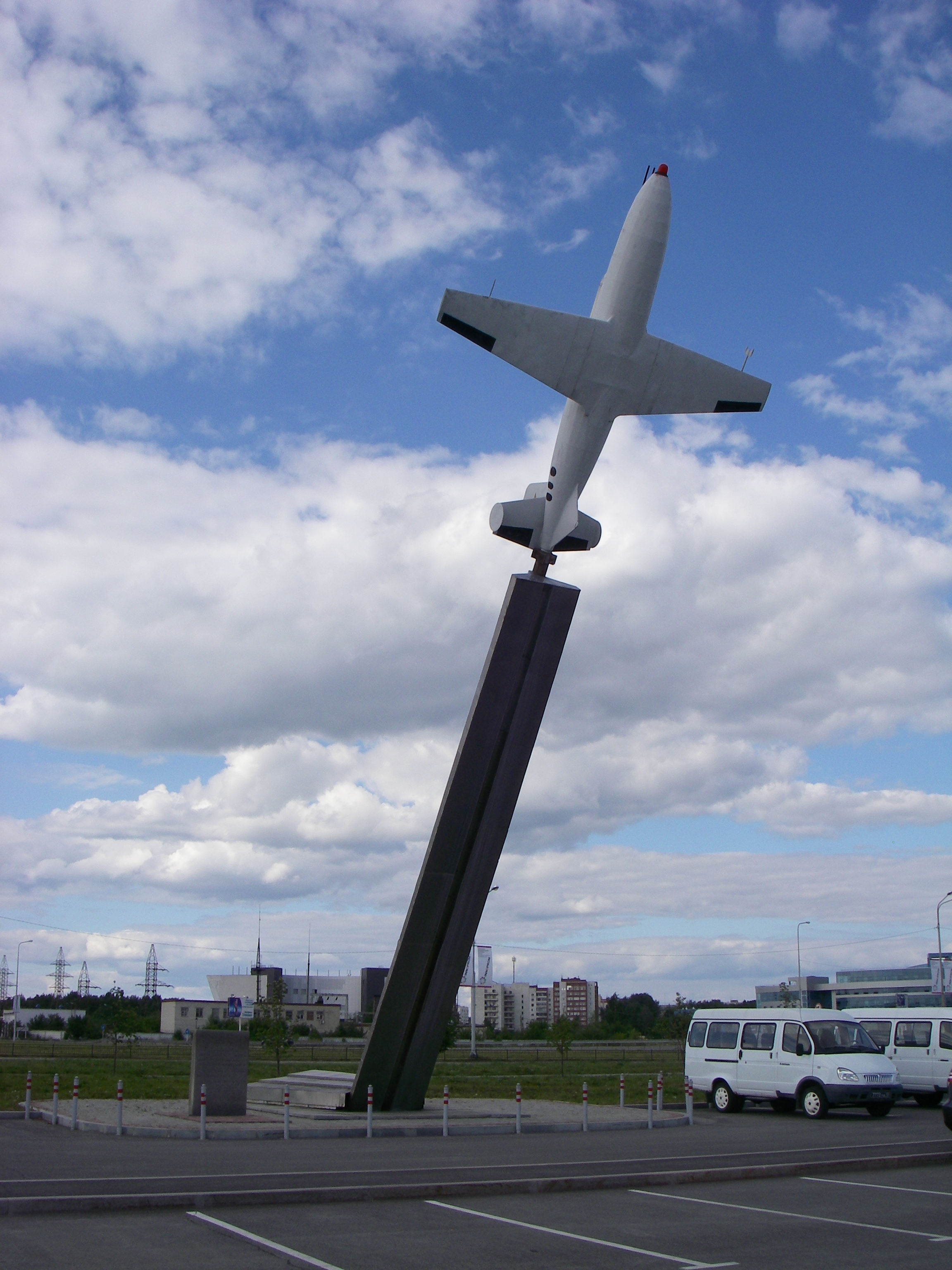 Memorial to BI-1 near Koltsovo airport